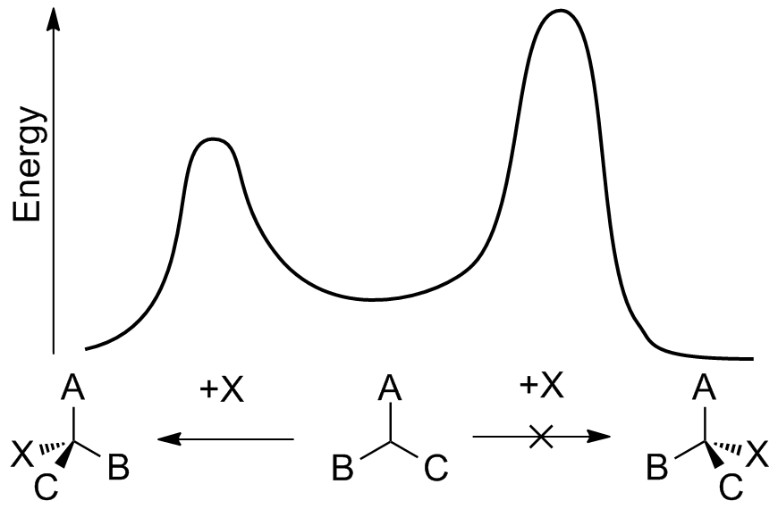 A diagram showing the energy levels in enantioselective synthesis